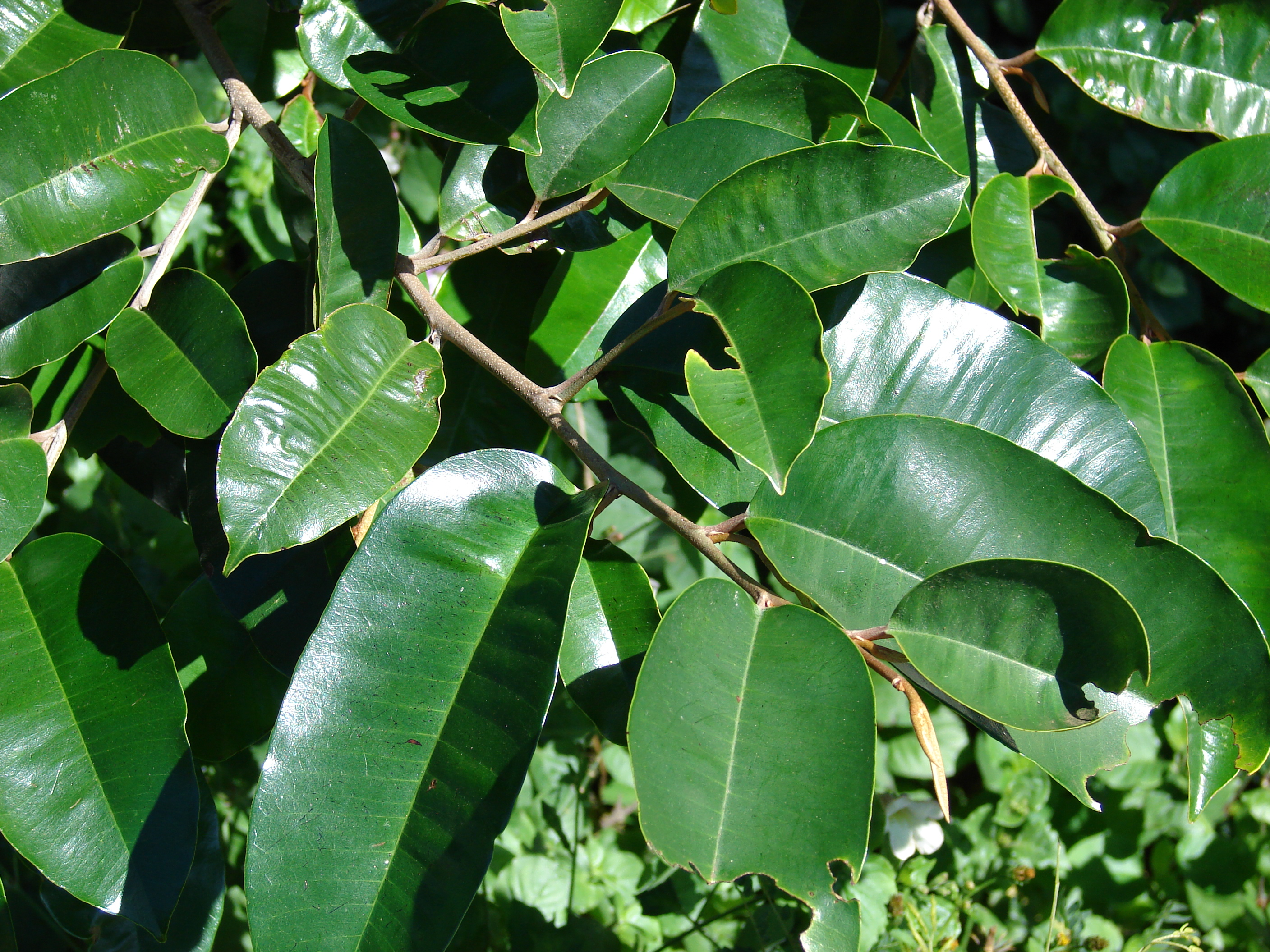 Chrysophyllum oliviforme (leaves). Location: Maui, Haiku